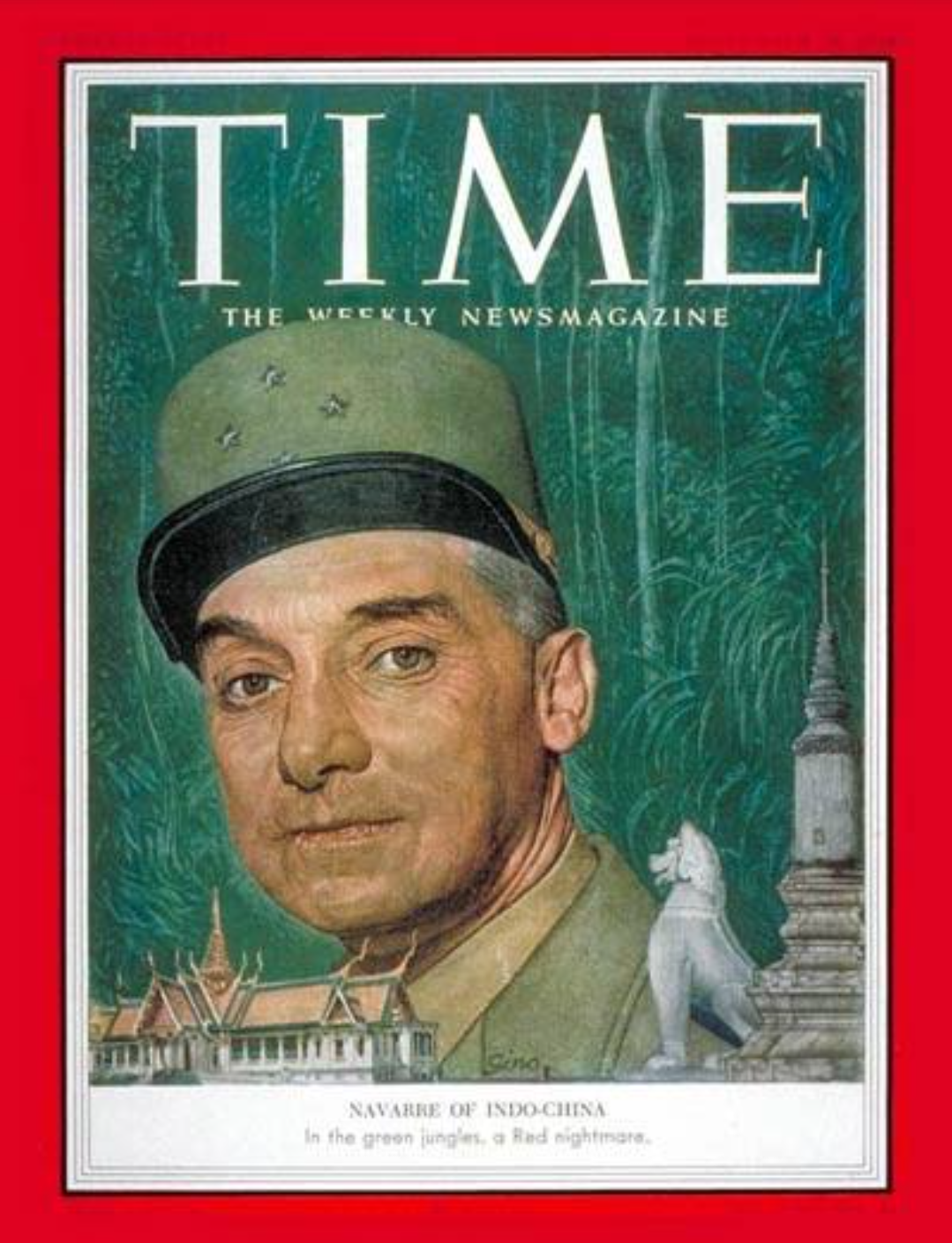 Henri Navarre on a cover of a Time Magazine